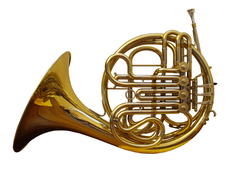 French Horn Besson - Lidl BE702 My own French Horn Réalisé avec the GIMP